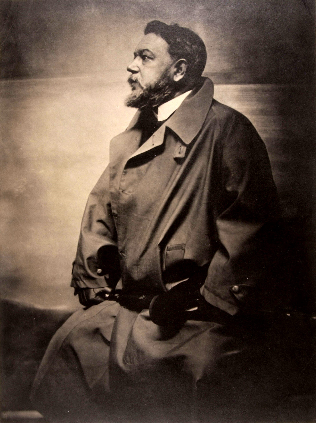 Platinum print of Joaquin Sorolla